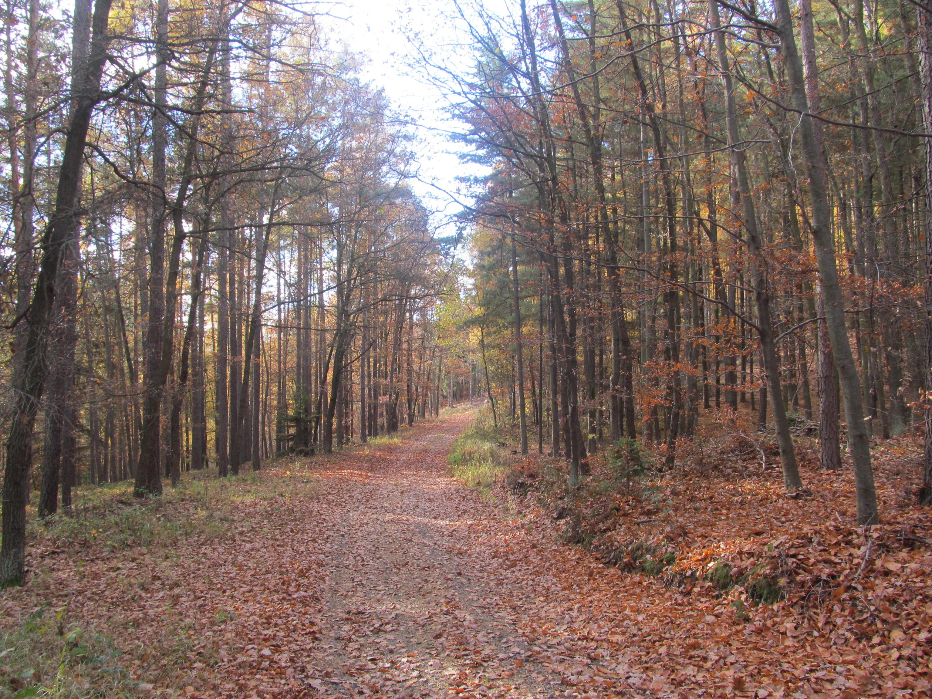 A typical part of the trail in autumn